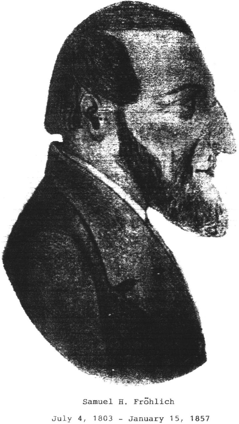 This sketch is the only known remaining image of Samuel Froehlich, a Swiss Anabaptist evangelist during the 1800s/